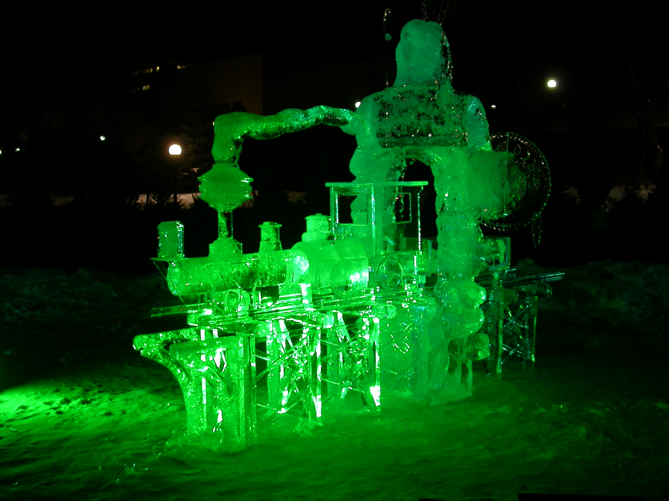 Ice sculpture of a train, lit at night. Taken at Winterlude.